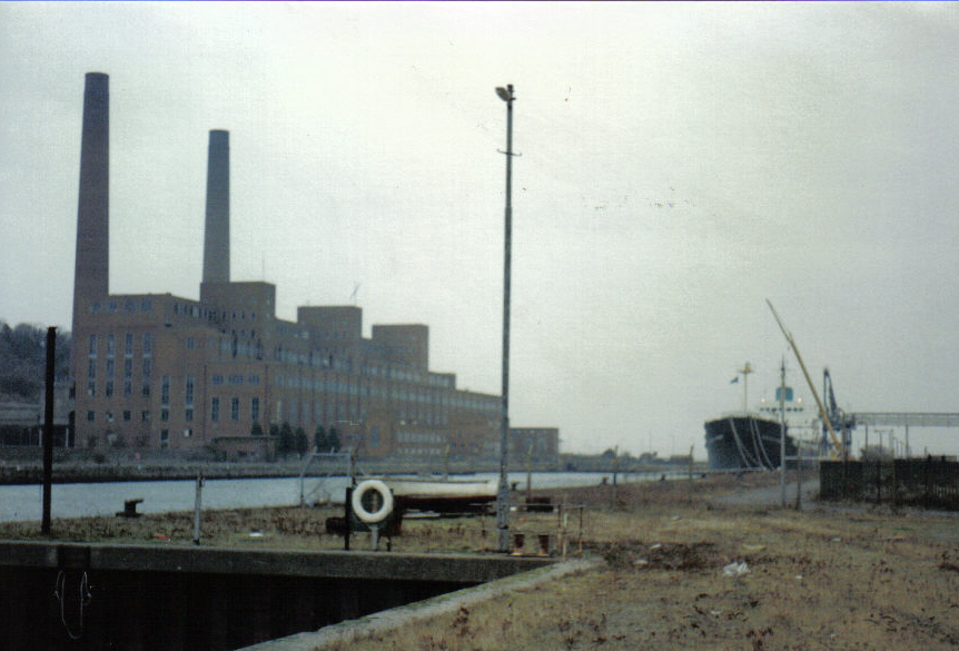 Portishead Docks near Bristol, pictured on 28th December 1989. Portishead 'A' power station closed in 1976, and Portishead 'B' followed in 1982. The chimney stacks in picture were demolished in October 1992.